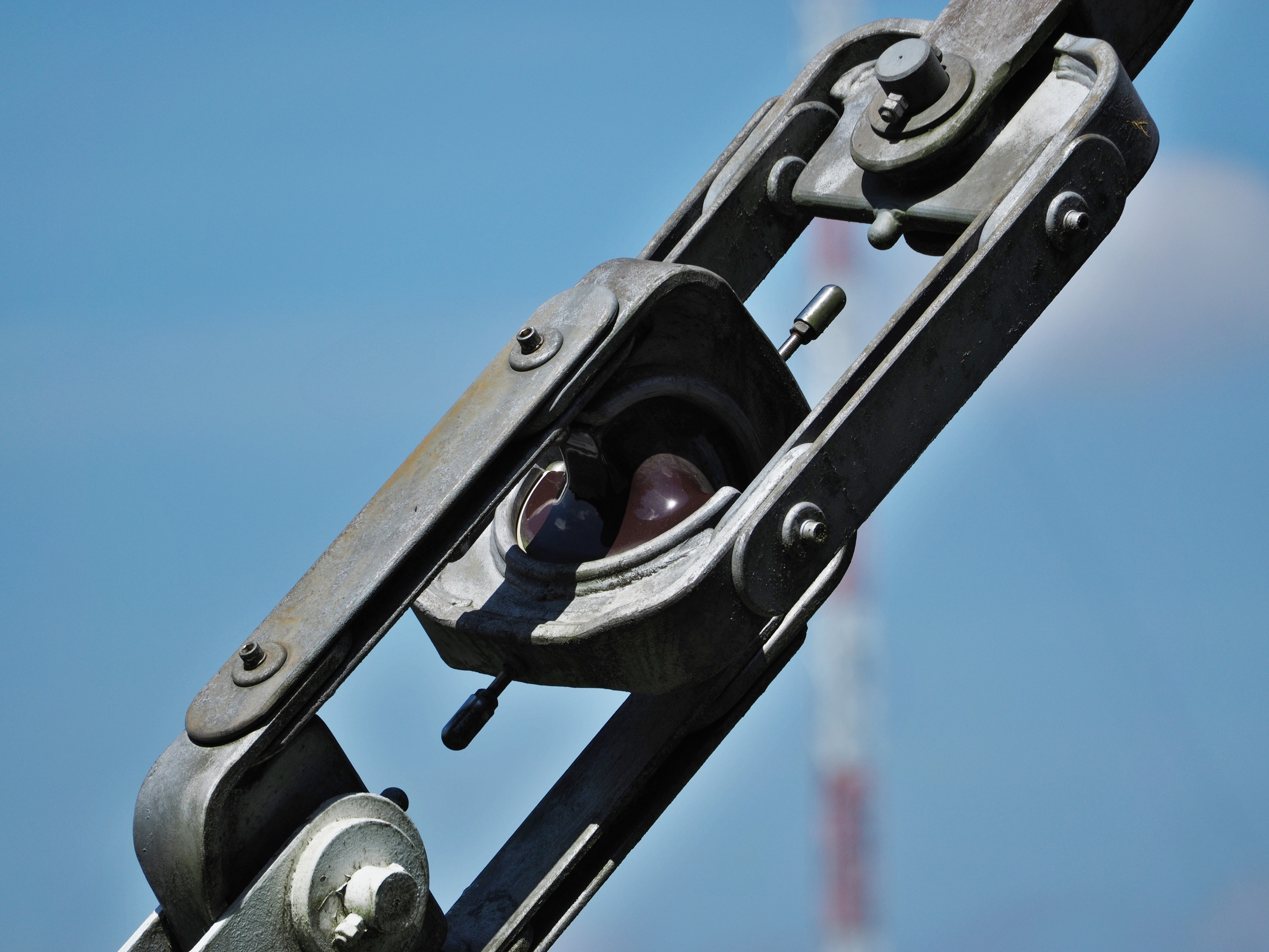 Mainflingen transmitter, guy isolation of transmitter masts